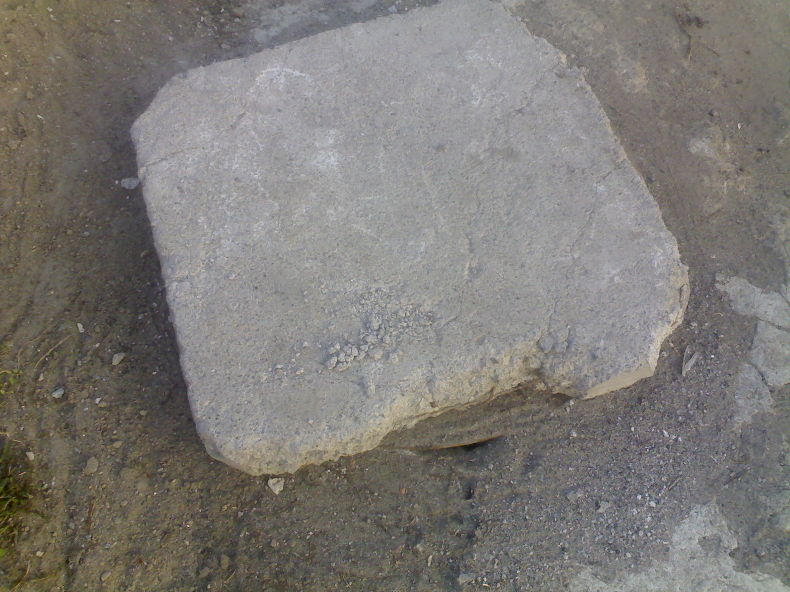 Manhole cover in Koziatyn, Ukraine